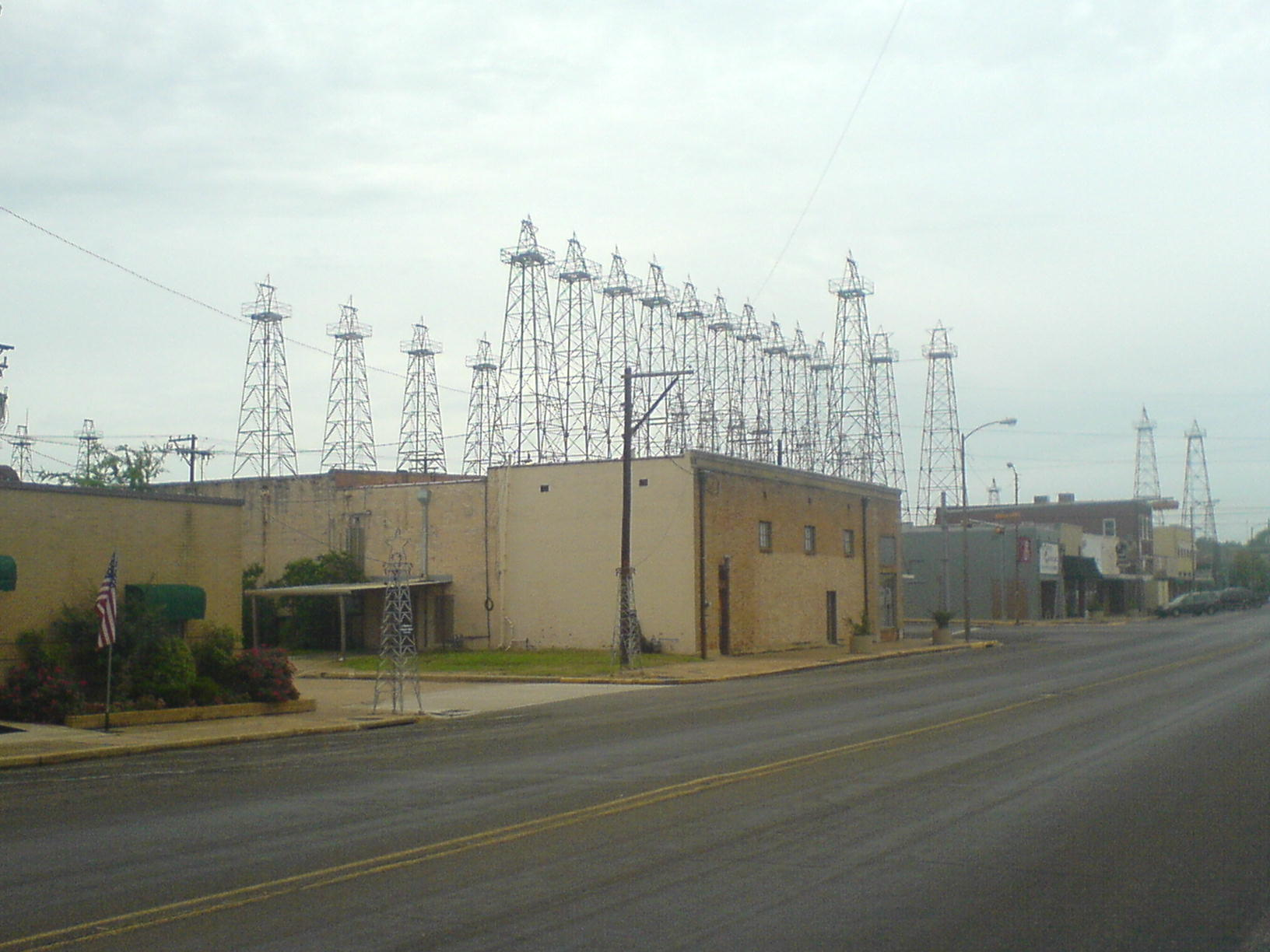 Acre park in downtown Kilgore, looking north along Kilgore Street.